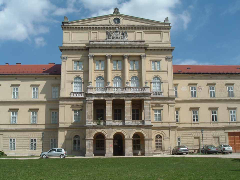 The Museum of natural Science and the Reguly Antal Library in Zirc, Hungary